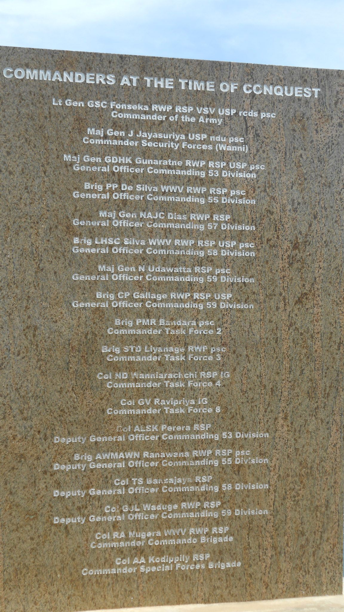 The monument that was unveiled after the victory of the Sri Lankan Army in the civil war in Sri Lanka naming the commanders that were present at the time of the conquest.